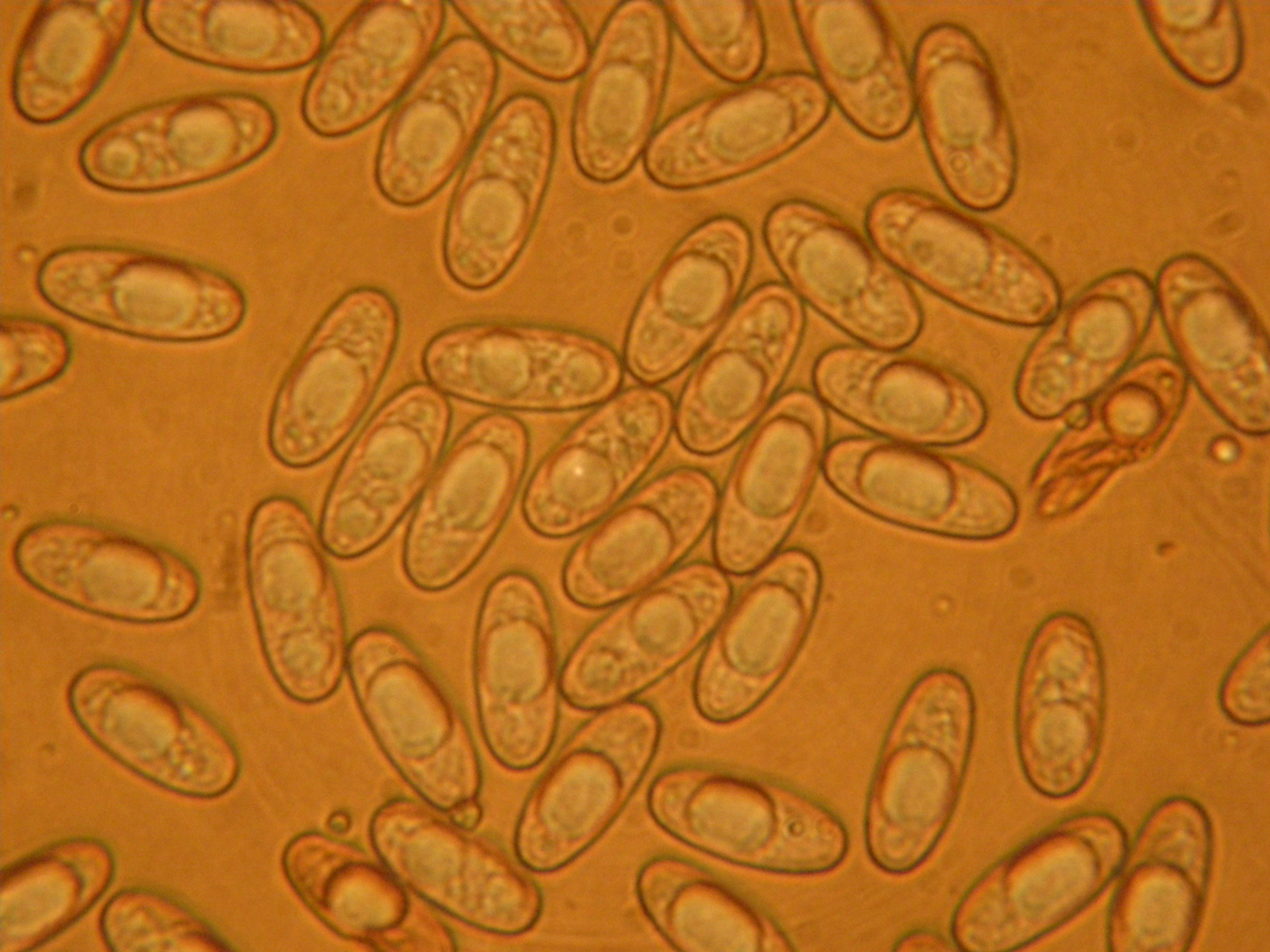 The ascospores of the cup-fungus Sarcosphaera coronaria (Jacq.) J. Schröt. Fungus specimens collected from Shasta-Trinity National Forest, Siskiyou County, California.